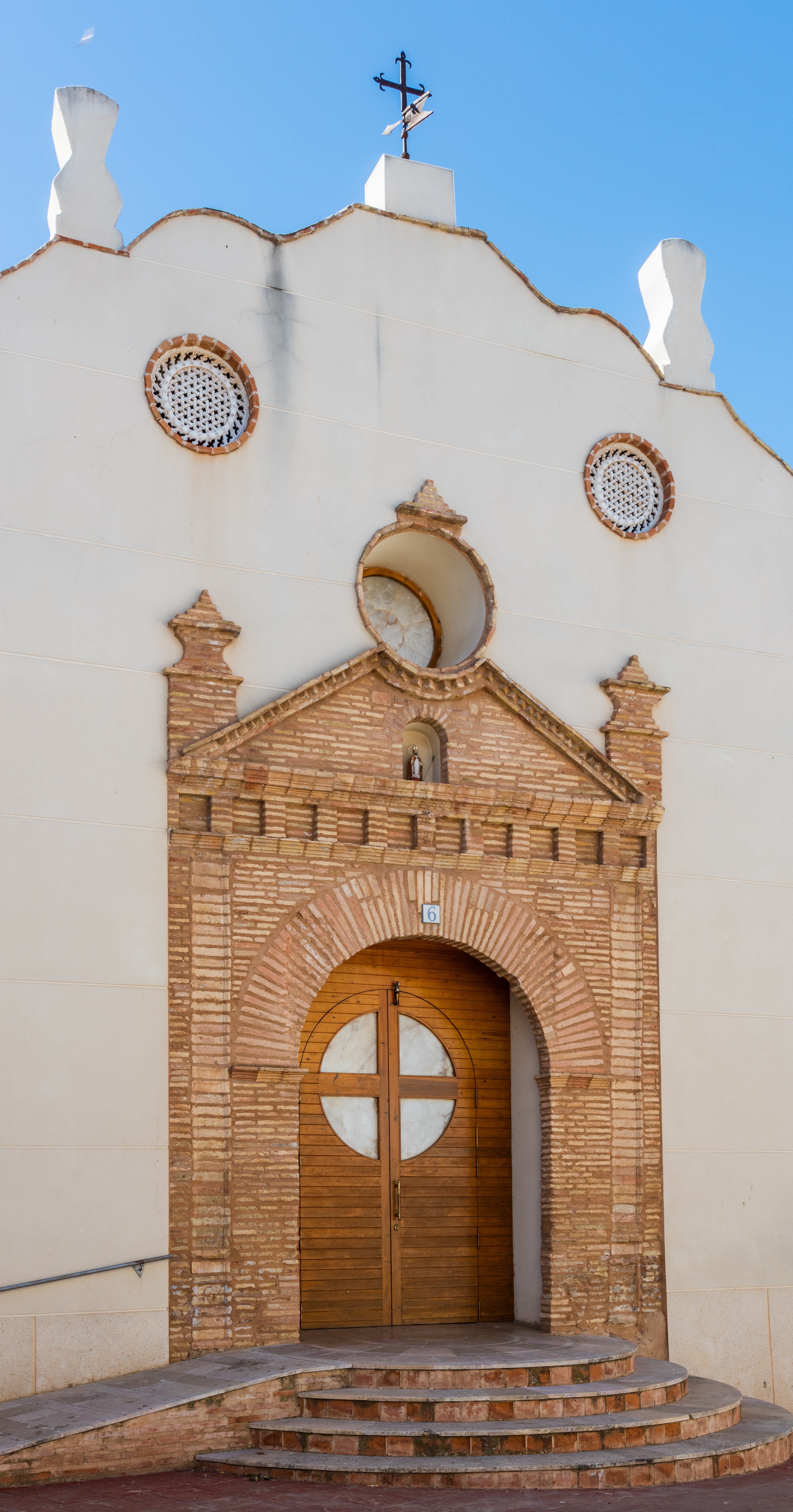 Church of St Martín de Tours, Torrellas, Saragossa, Spain